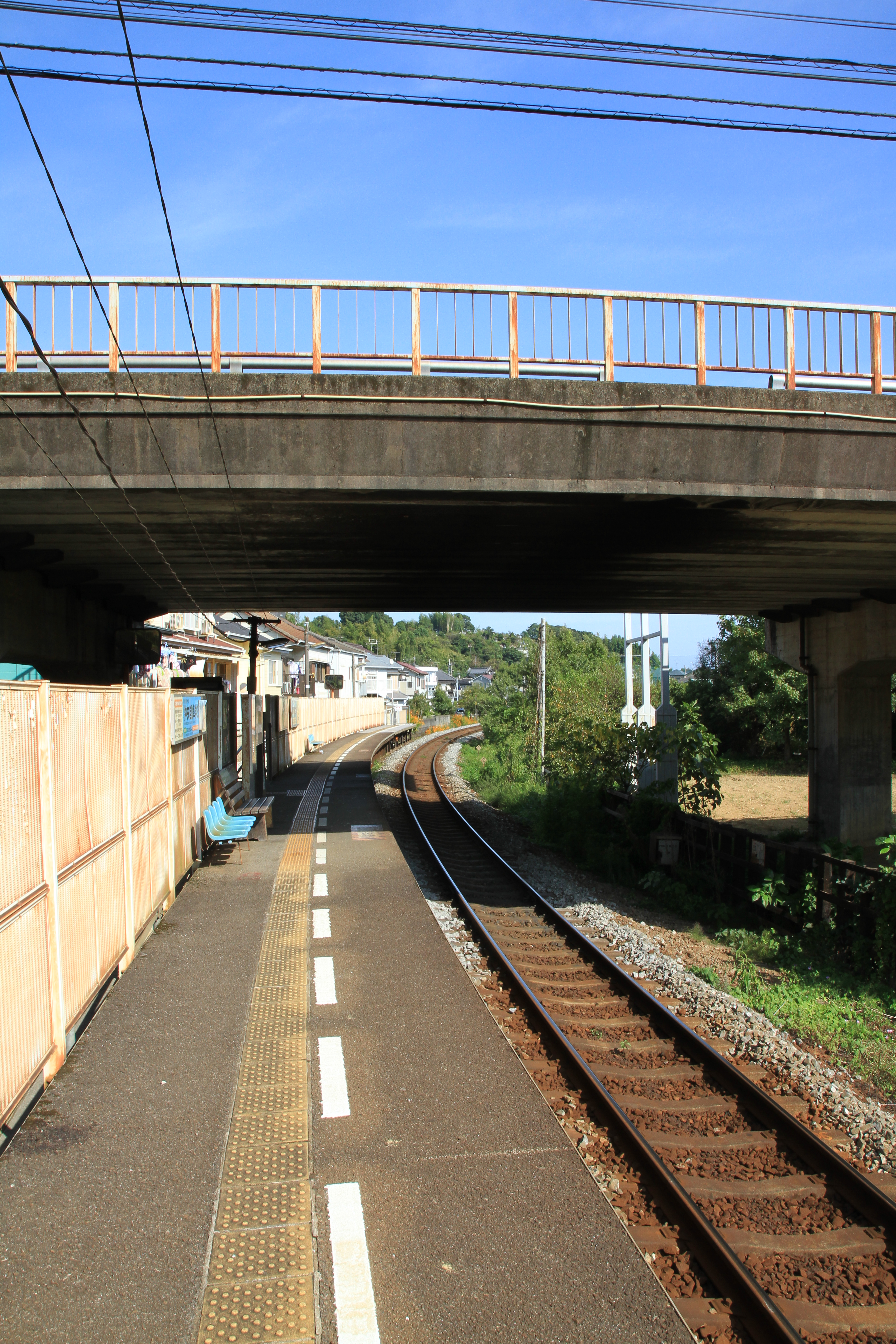 Kochi-Shogyomae Station platform